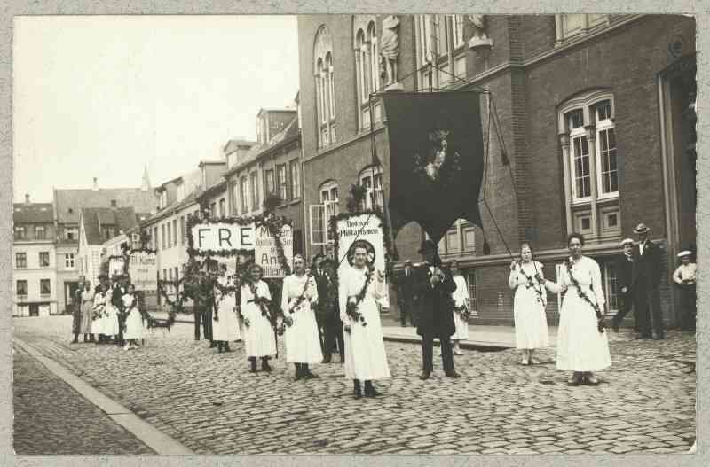 Photograph of a Danish women's antimilitarist demonstration